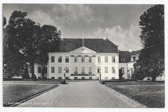 Lundbygård 9 km west of Præstø, Denmark